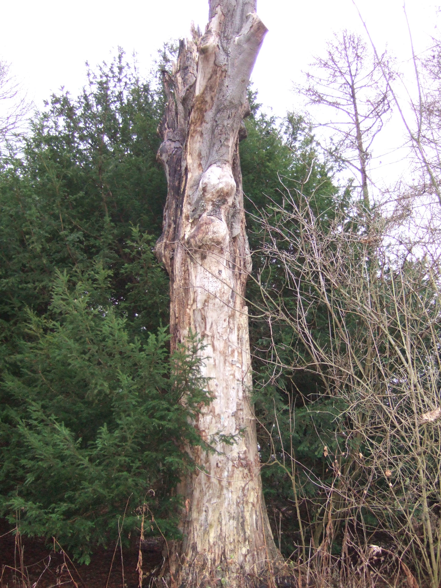 Coarse woody debris. Dead tree left standing, Banstead Woods, Surrey